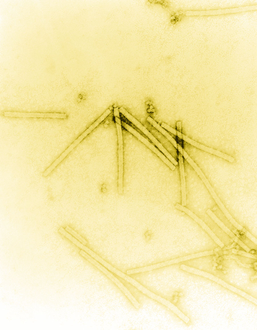 Tobacco Mosaic Virus (TMV) particles negative stained with heavy metal to make them visible in the TEM. Magnified 160,000X